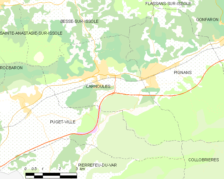 Map of French municipality Carnoules